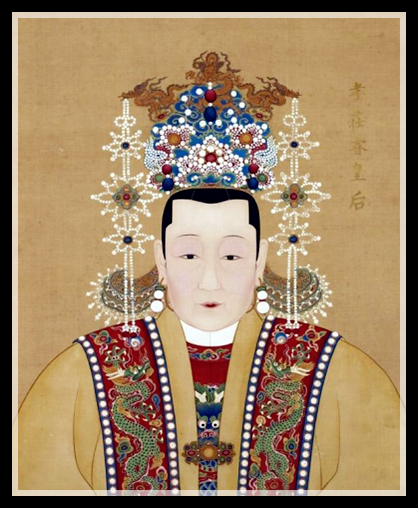 Portrait of Empress Xiaozhuang of Ming Dynasty China